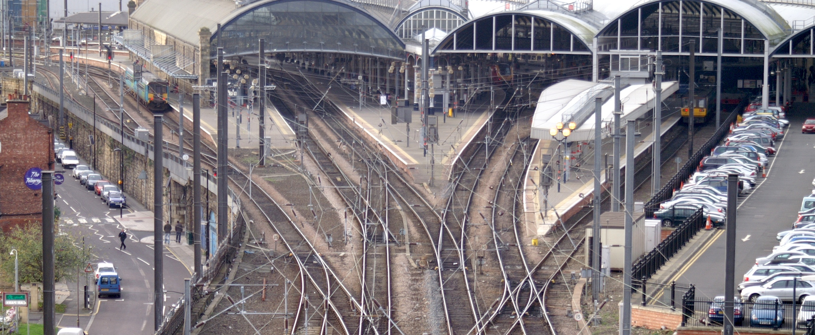 Photo of Newcastle railway station, looking west from the Castle.